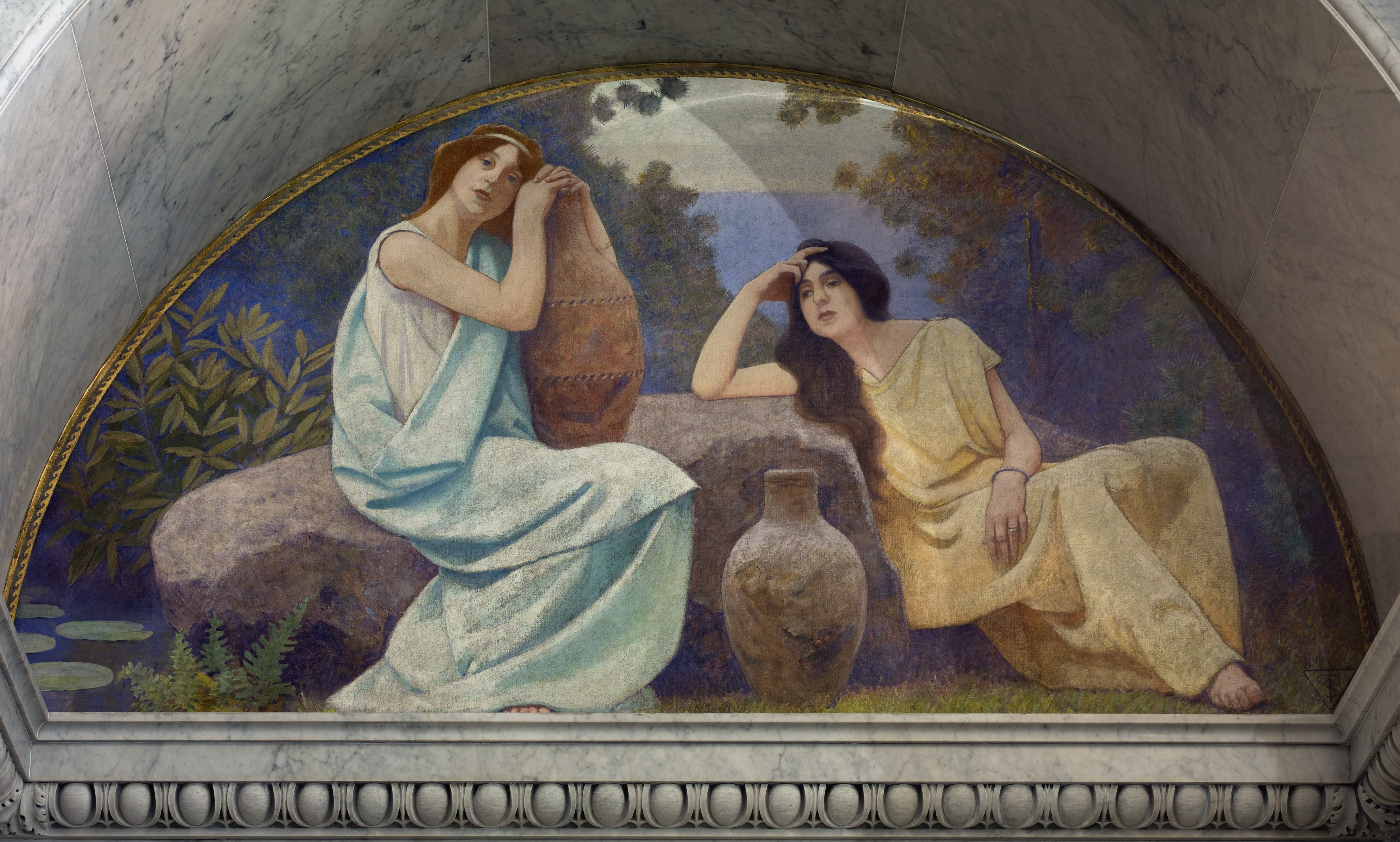 Rest. Mural in lunette from the Family and Education series by Charles Sprague Pearce. North Corridor, Great Hall, Library of Congress Thomas Jefferson Building, Washington, D.C. Mural contains artist's logo.